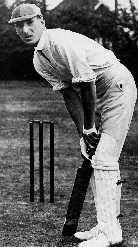 1930, Douglas Jardine, Surrey and England, Douglas Jardine played in 22 Test matches for England between 1928-1934, and was captain of England for the infamous 'Bodyline' tour to Australia 1932-1933.